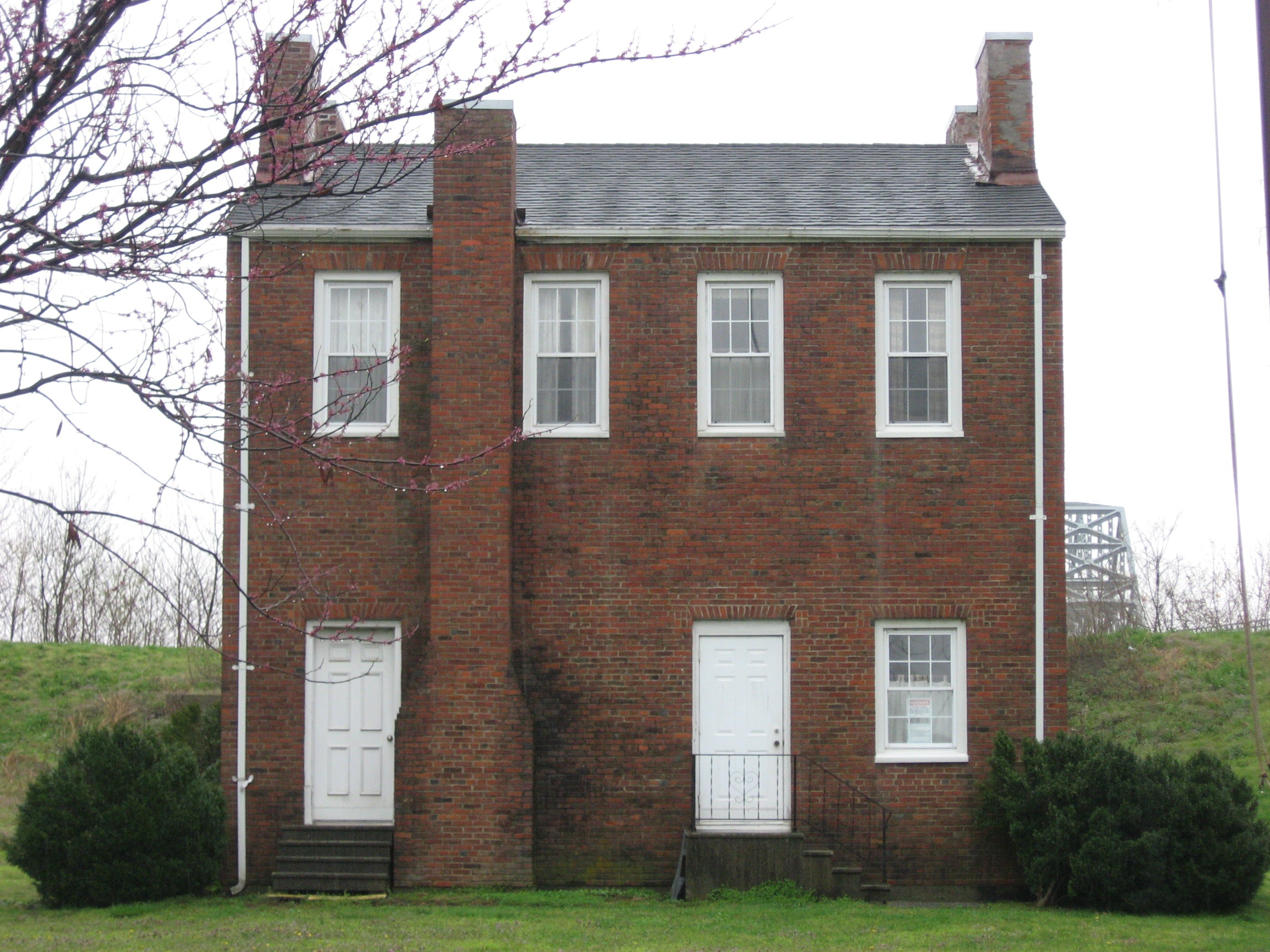 Front of the John Marshall House Museum, located on Main Street south of Adams Street in Old Shawneetown, Illinois, United States. Built in 1974, it is a historically inaccurate reproduction of the original John Marshall House, which was built on this site in 1808; it was one of Illinois' first banks and brick houses, but it was demolished in 1974 specifically so that this inaccurate reproduction could be built. Enough of the original house remains (e.g. foundations) that the site of the original house has qualified to be listed on the National Register of Historic Places.